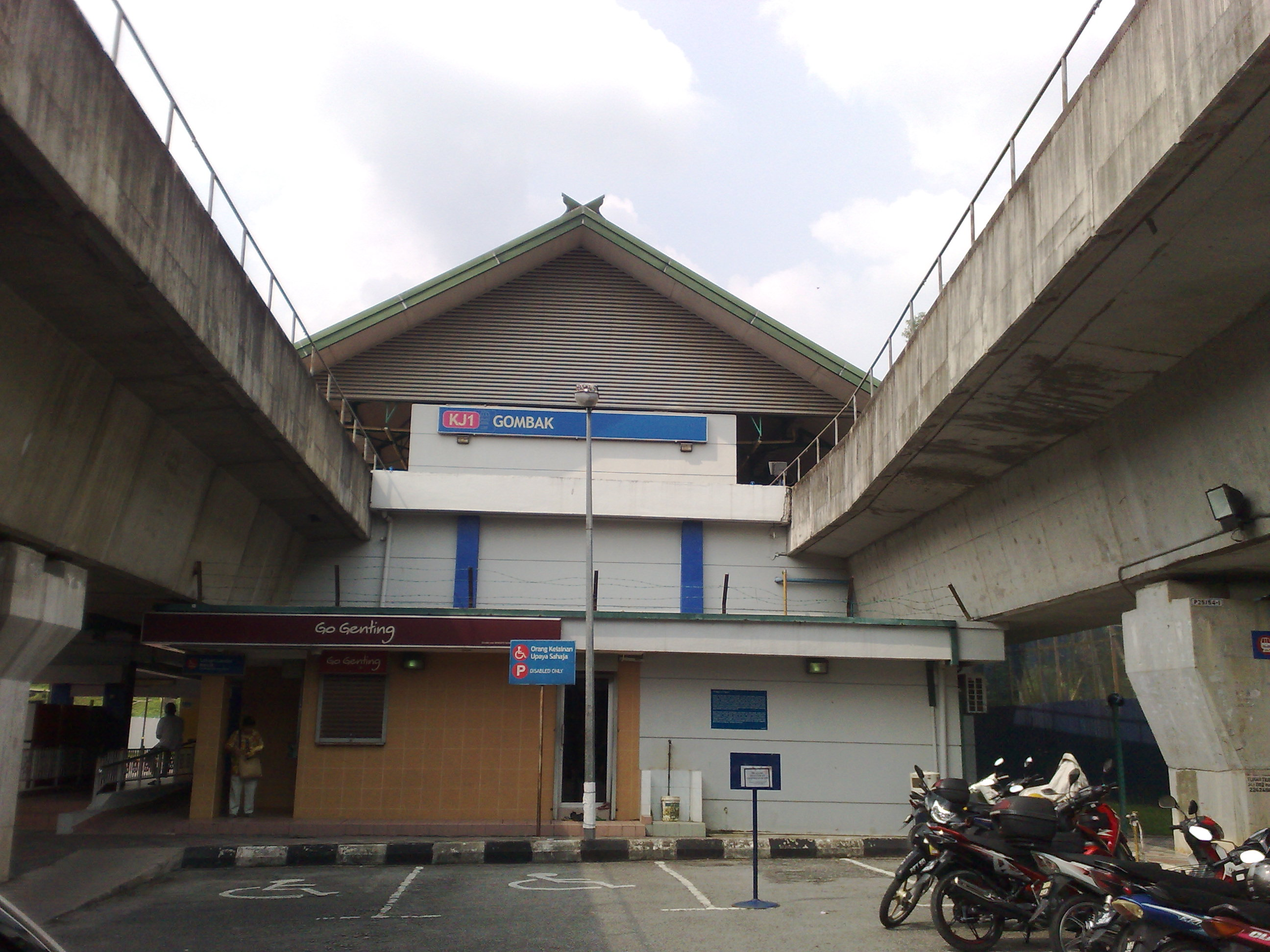 Gombak LRT - 1